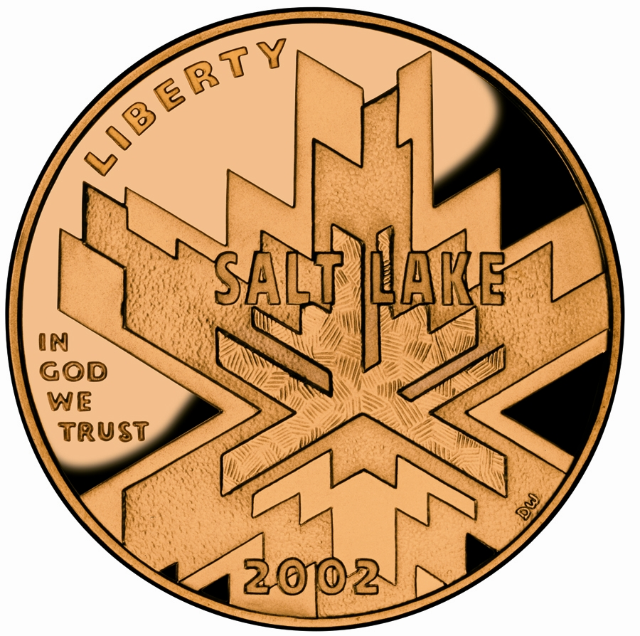 Obverse of the 2002 Olympic Winter Games $5 Coin